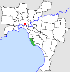 Location of the City of Sandringham within Melbourne.